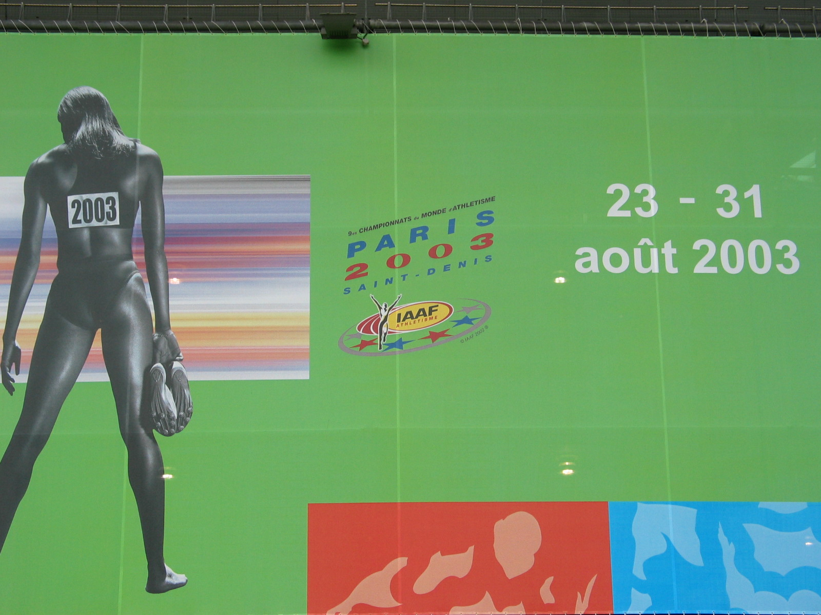 Official Advertising for the 2003 IAAF World Championships